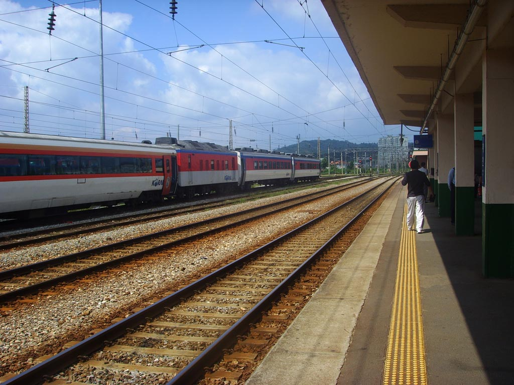 Jecheon Station Platform (Jungang Line, Taebaek Line, Jecheon-si, Chungcheongbuk-do)